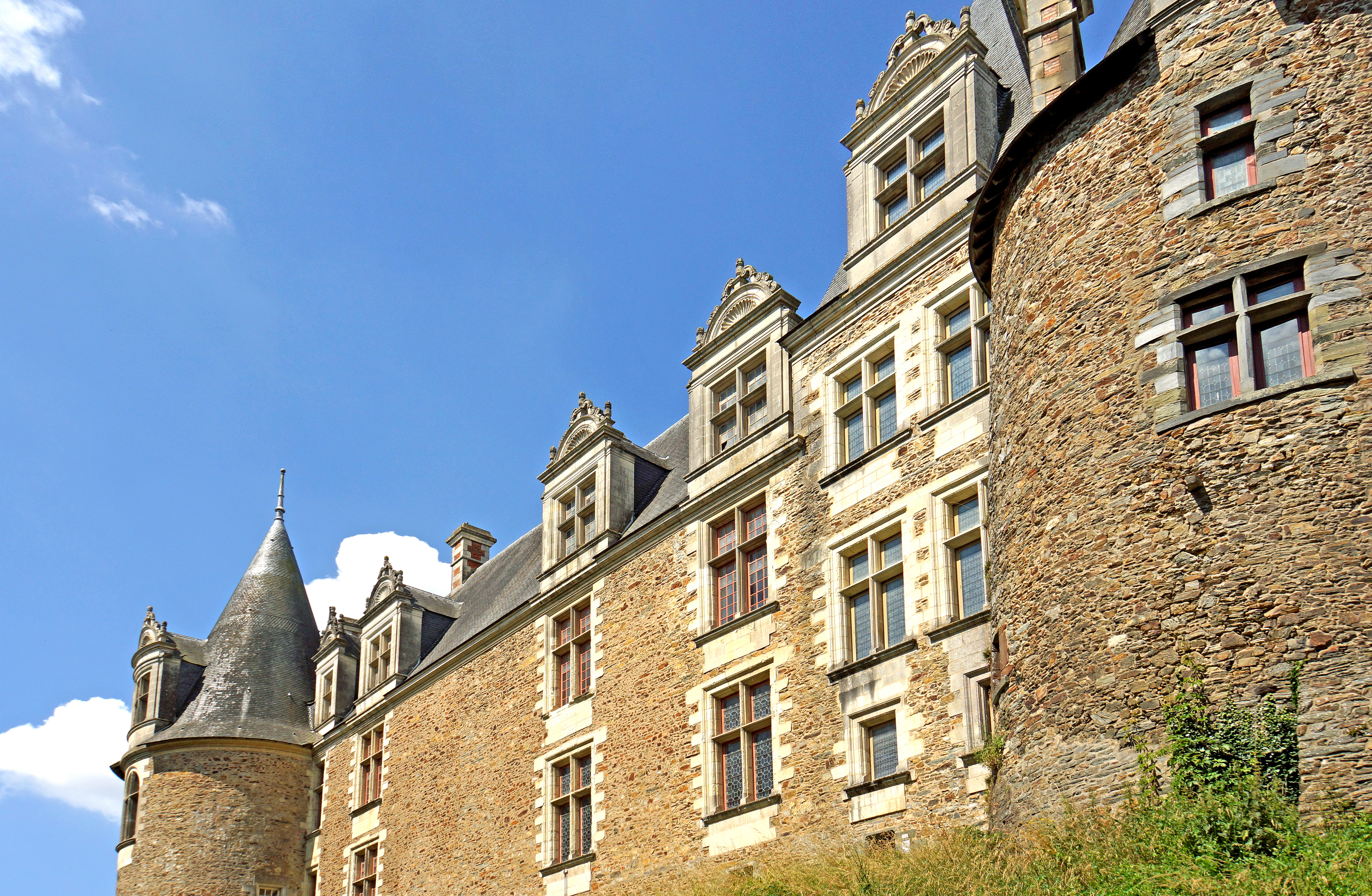 PLEASE, NO invitations or self promotions, THEY WILL BE DELETED. My photos are FREE to use, just give me credit and it would be nice if you let me know, thanks. The Château de Châteaubriant is French medieval and Renaissance architecture. It combines an upper and a lower bailey encircled by walls and towers mostly dating from the 13th century. In the upper bailey are located the 12th century chapel and the 14th century keep and two halls.